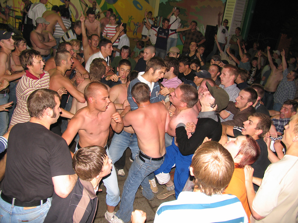 ska concert in Moscow